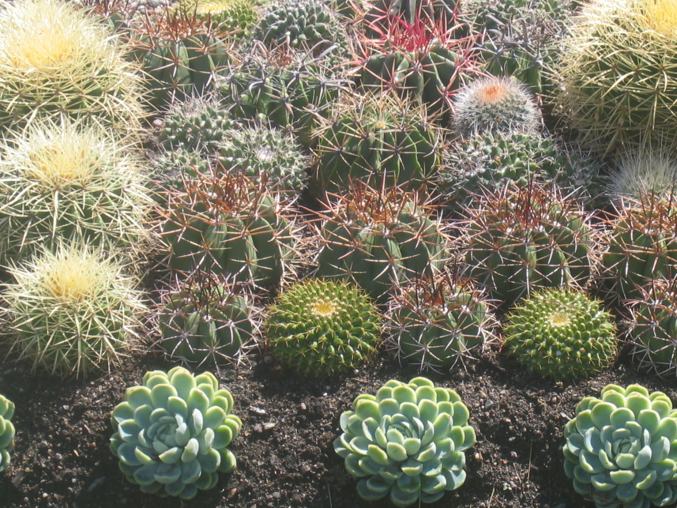 Closeup of the cactae plantation in Norrköping, Sweden. Most of these cactae appear to be echinocactus. The three plants at the bottom of the photo are not cactae but echeveria